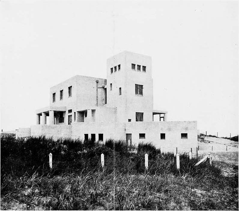 Theo van Doesburg. Villa Allegonda [architect: J.J.P. Oud]. 1918 (?). Foto. Instituut Collectie Nederland (inv.nr. AB5055).